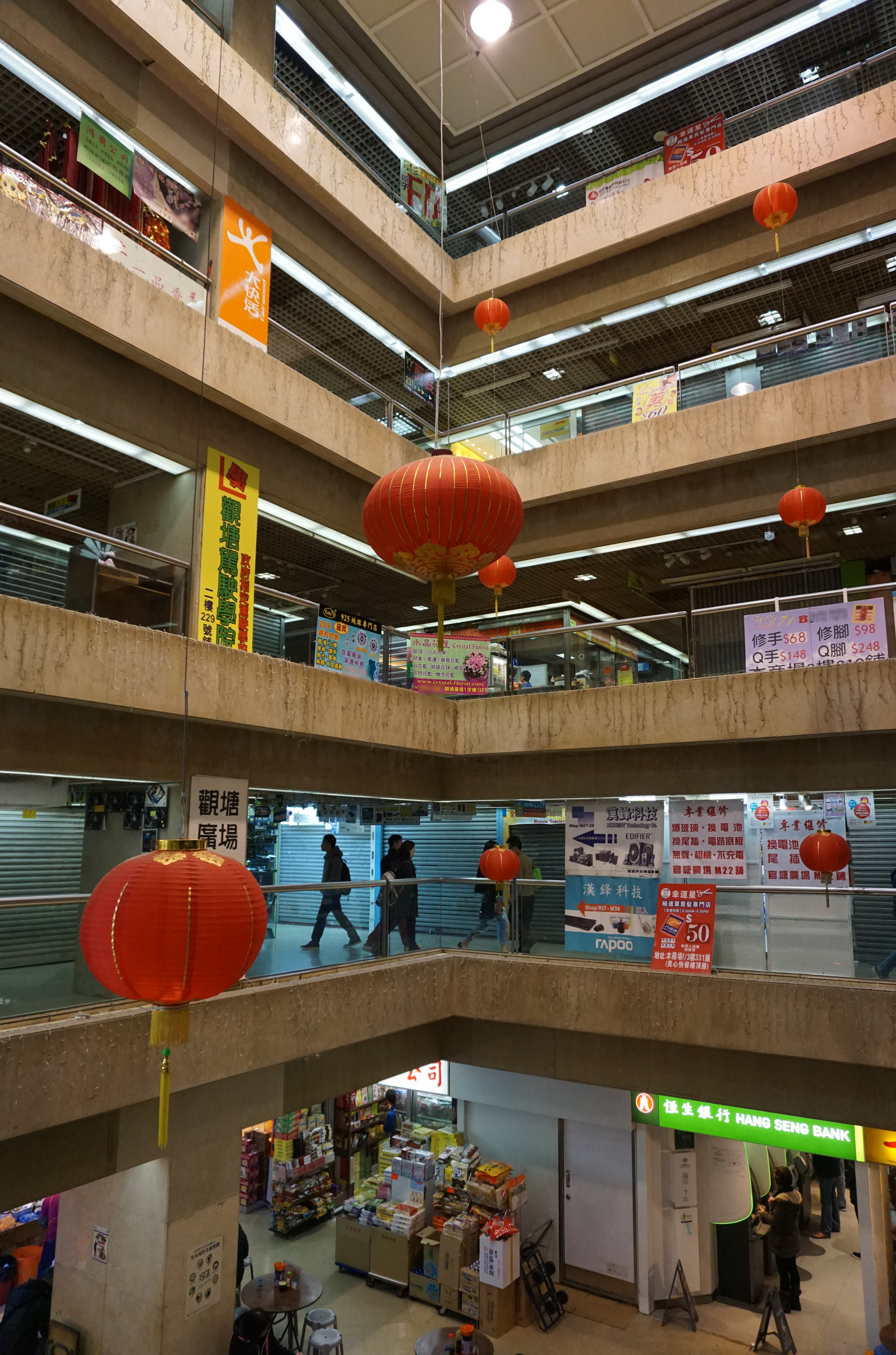 Kwun Tong Plaza in Kwun Tong, Hong Kong.